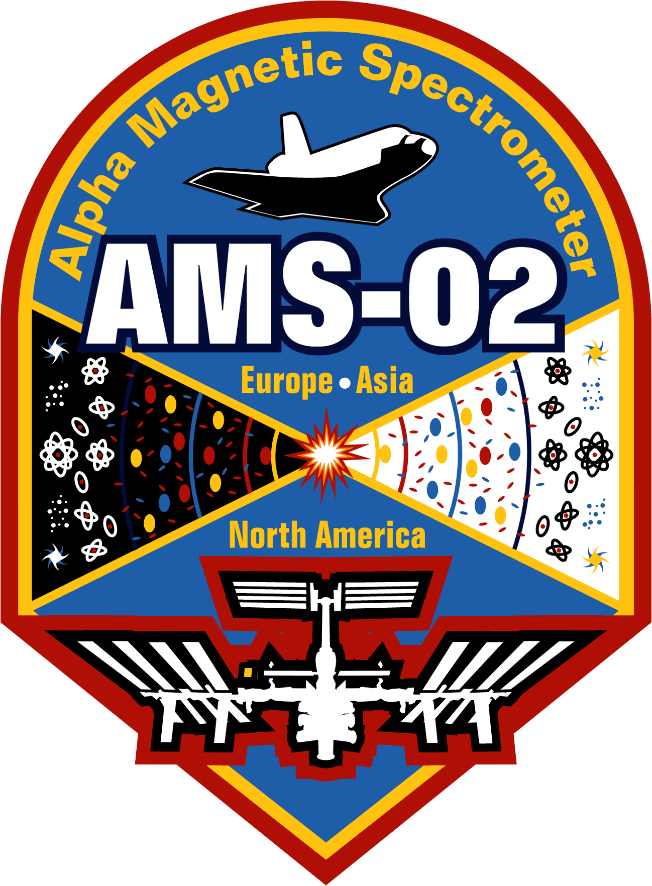 The insignia for AMS-02, a particle physics experiment to be mounted on the International Space Station.